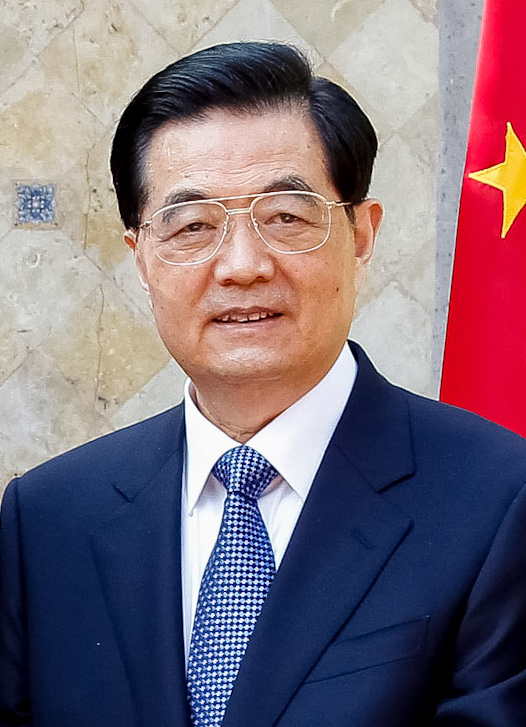 Los Cabos - México, 18/06/2012. Presidenta Dilma Rousseff durante reunião dos Chefes de Estado e de Governo dos BRICS (Brasil, Rússia, Índia, China e África do Sul). Foto: Roberto Stuckert Filho/PR.